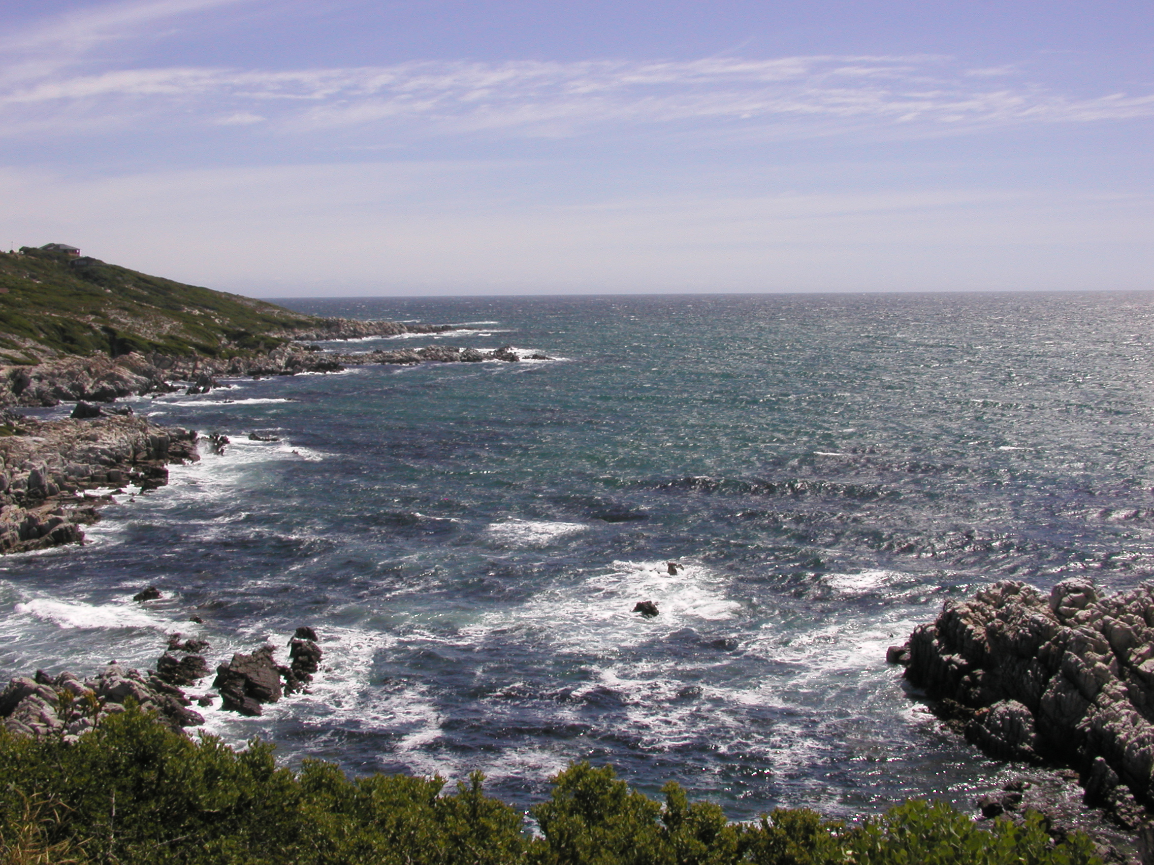 De Kelders bay, South AfricaDe Kelders bay